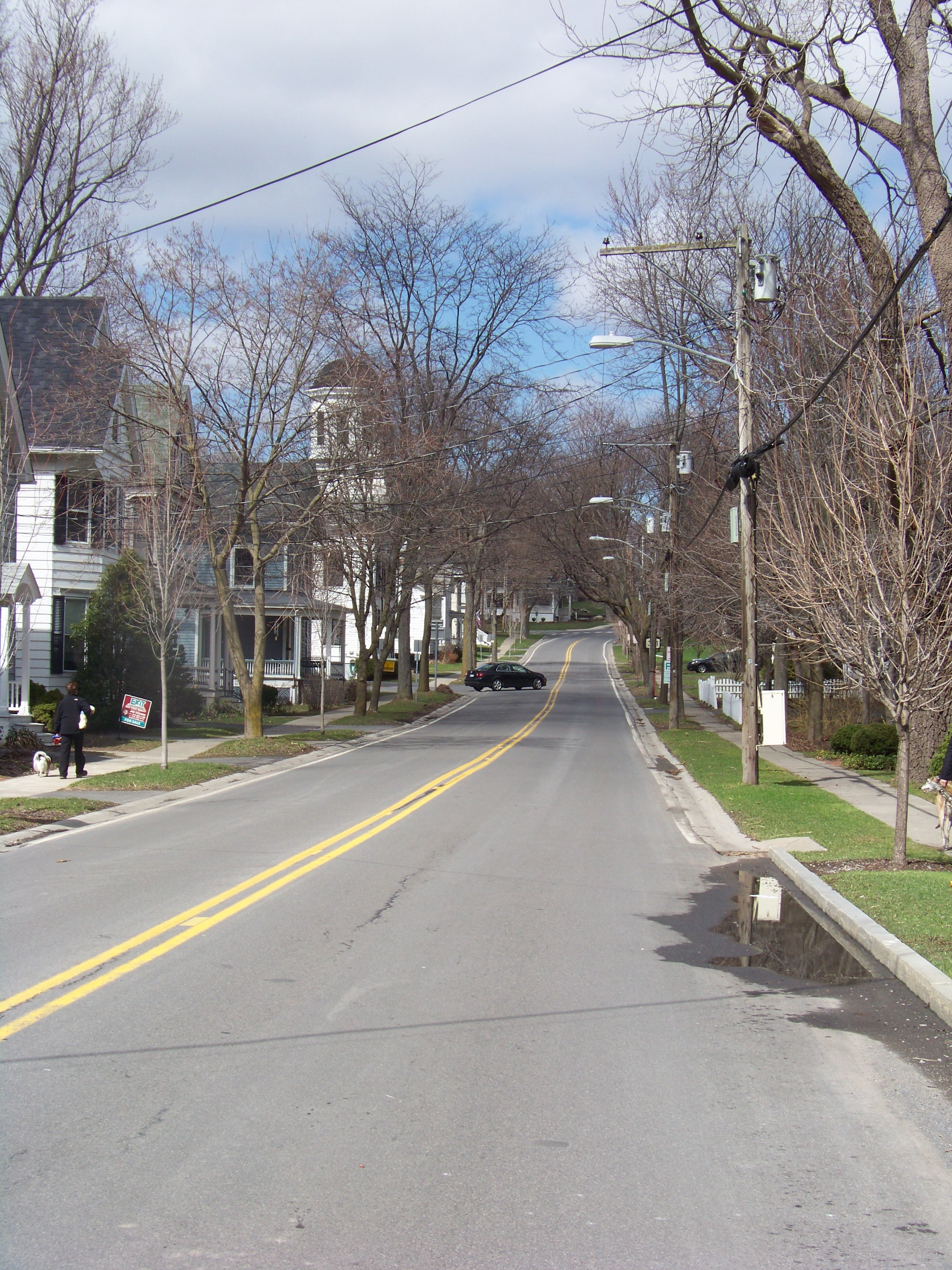 NY 321 looking north from the southern terminus in Skaneateles